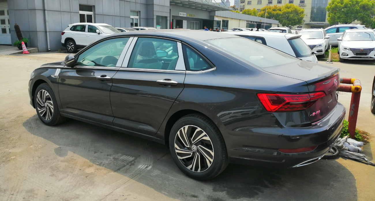 Volkswagen Sagitar III photographed in Shanghai, China.